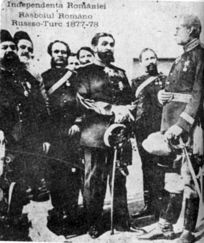 Frame from Independenţa României film (1912). Main leaders: Constantin Nottara (as Osman Pasa), Aristide Demetriade (as king Carol I) and Pepi Machauer (as czar Alexander II).